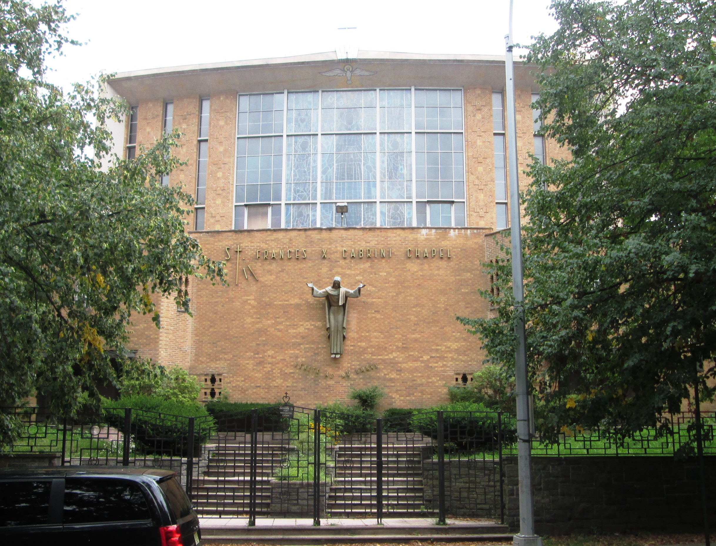 The St. Frances Xavier Cabrini Shrine is located at 701 Fort Washington Avenue between Fort Tryon Park and West 190th Street, with a facade on Cabrini Boulevard, in the Hudson Heights neighborhood of Washington Heights in Upper Manhattan, New York City. It is dedicated to St. Frances Xavier Cabrini, who in 1946 became the first American citizen to be canonized by the Roman Catholic Church. The current shrine was built in 1957 and was designed by the architectural firm of De Sina & Pellegrino as a parabolic arch.